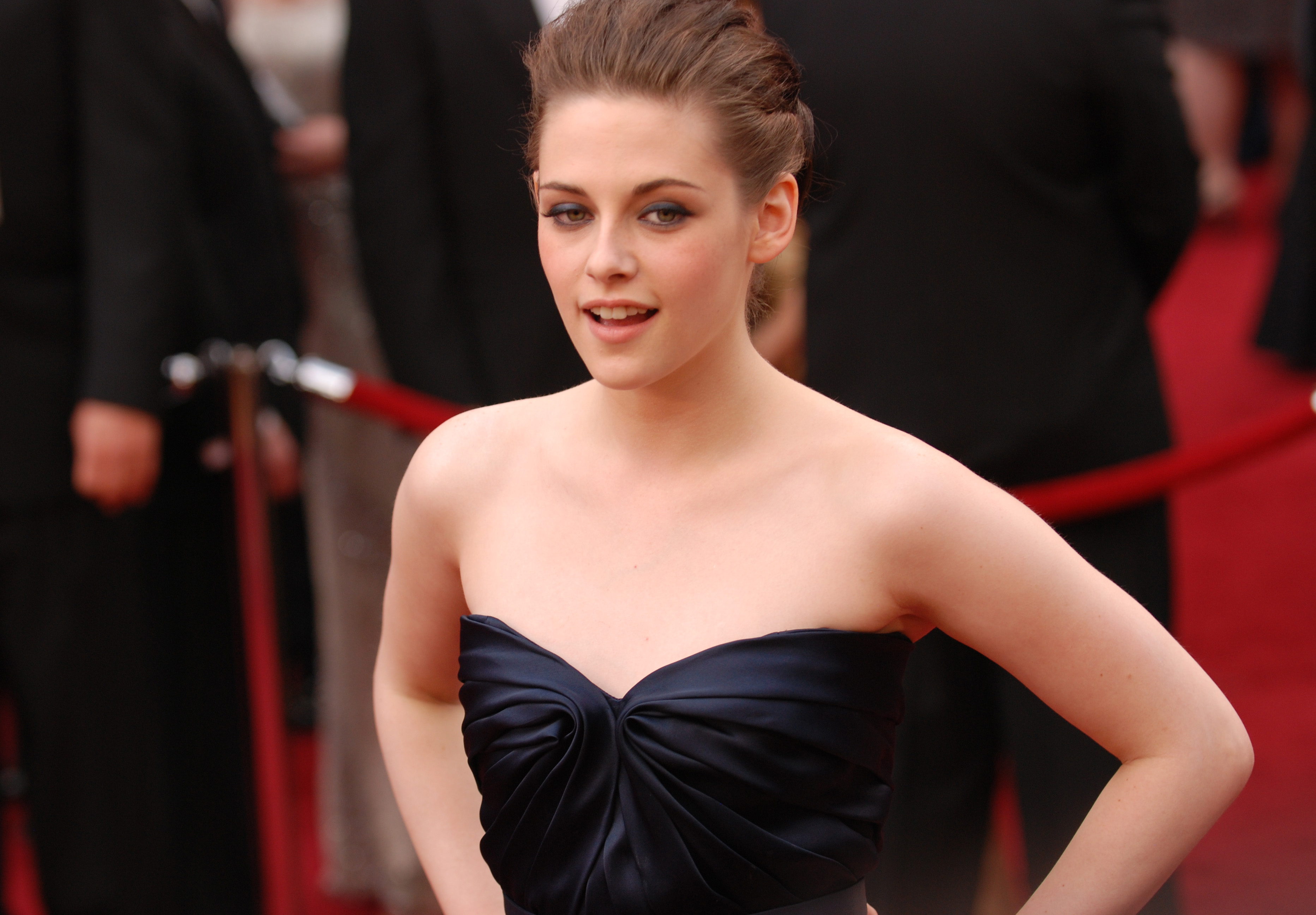 Kristen Stewart of "Twilight" fame plays on the vampire mystique at the 82nd Academy Awards, March 7, in Hollywood, Calif.